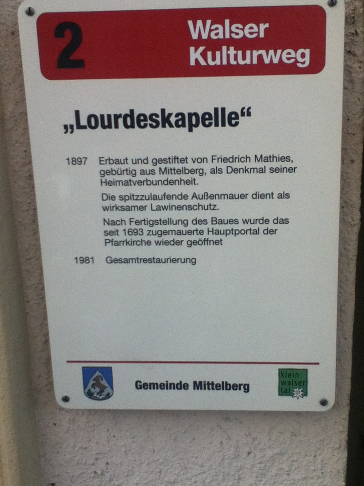 Lourdeskapelle